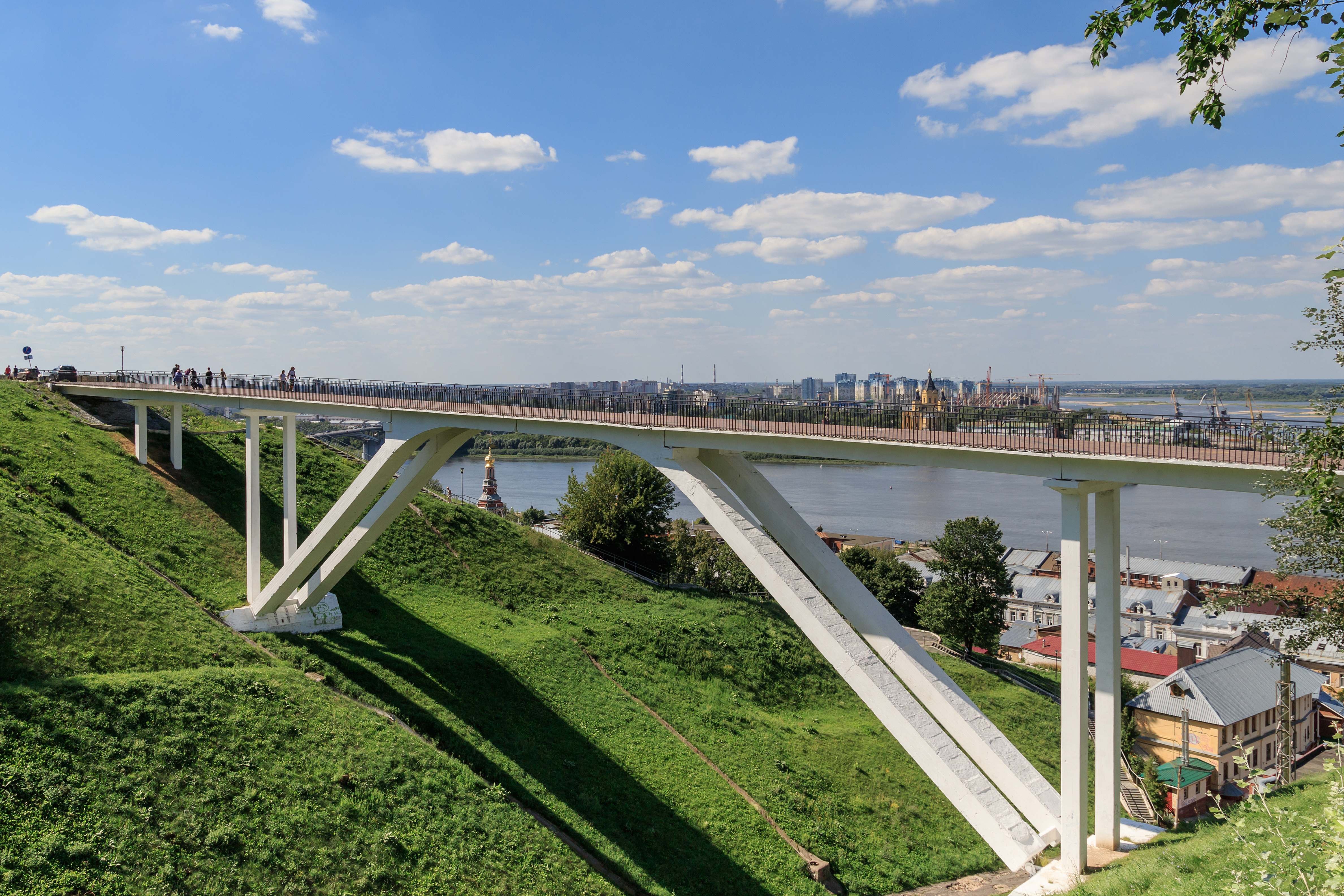 Footbridge on Ilyinka Hill. Nizhny Novgorod, Russia.